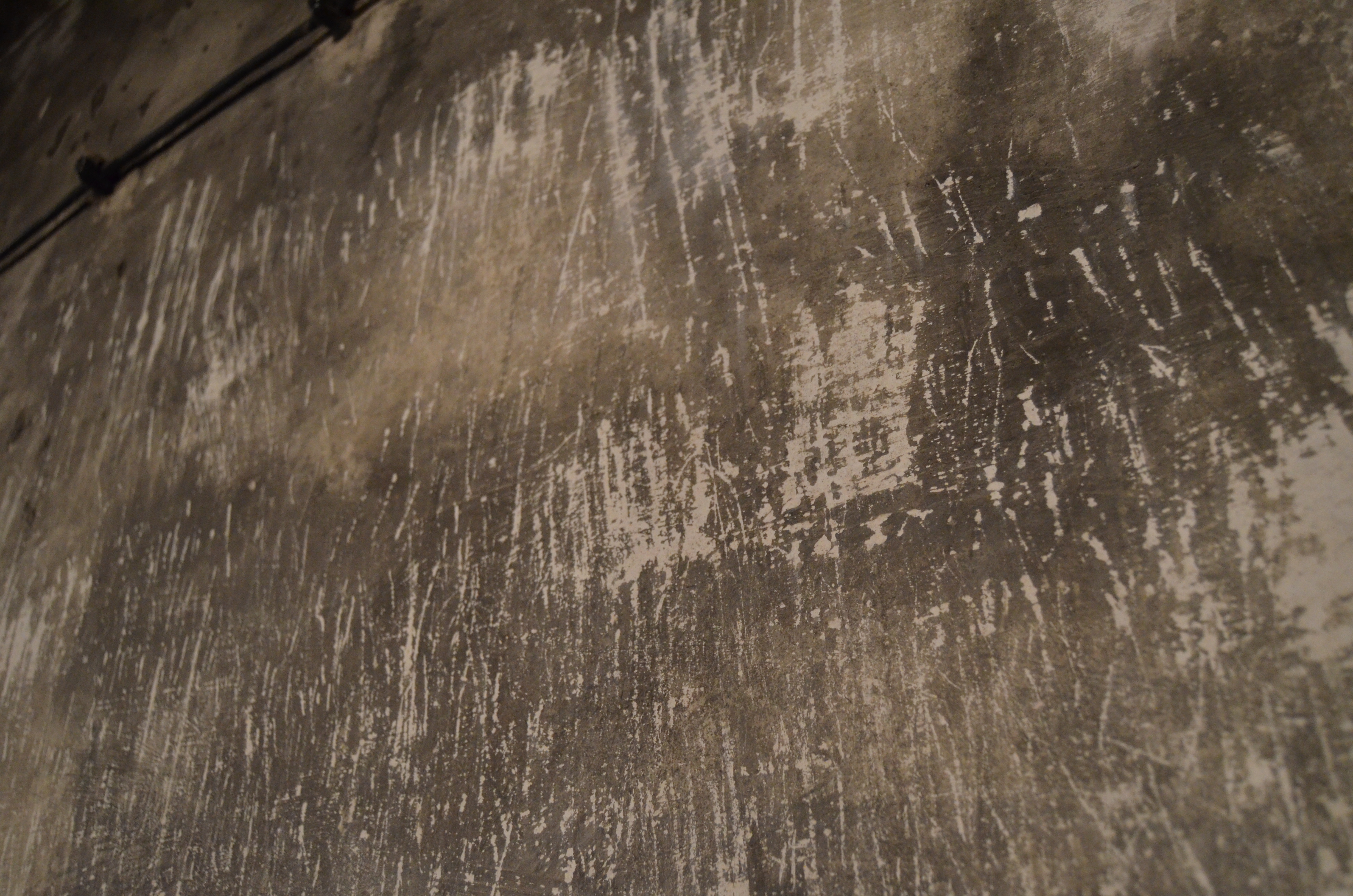 Scratch marks on the wall of the Auschwitz gas chamber